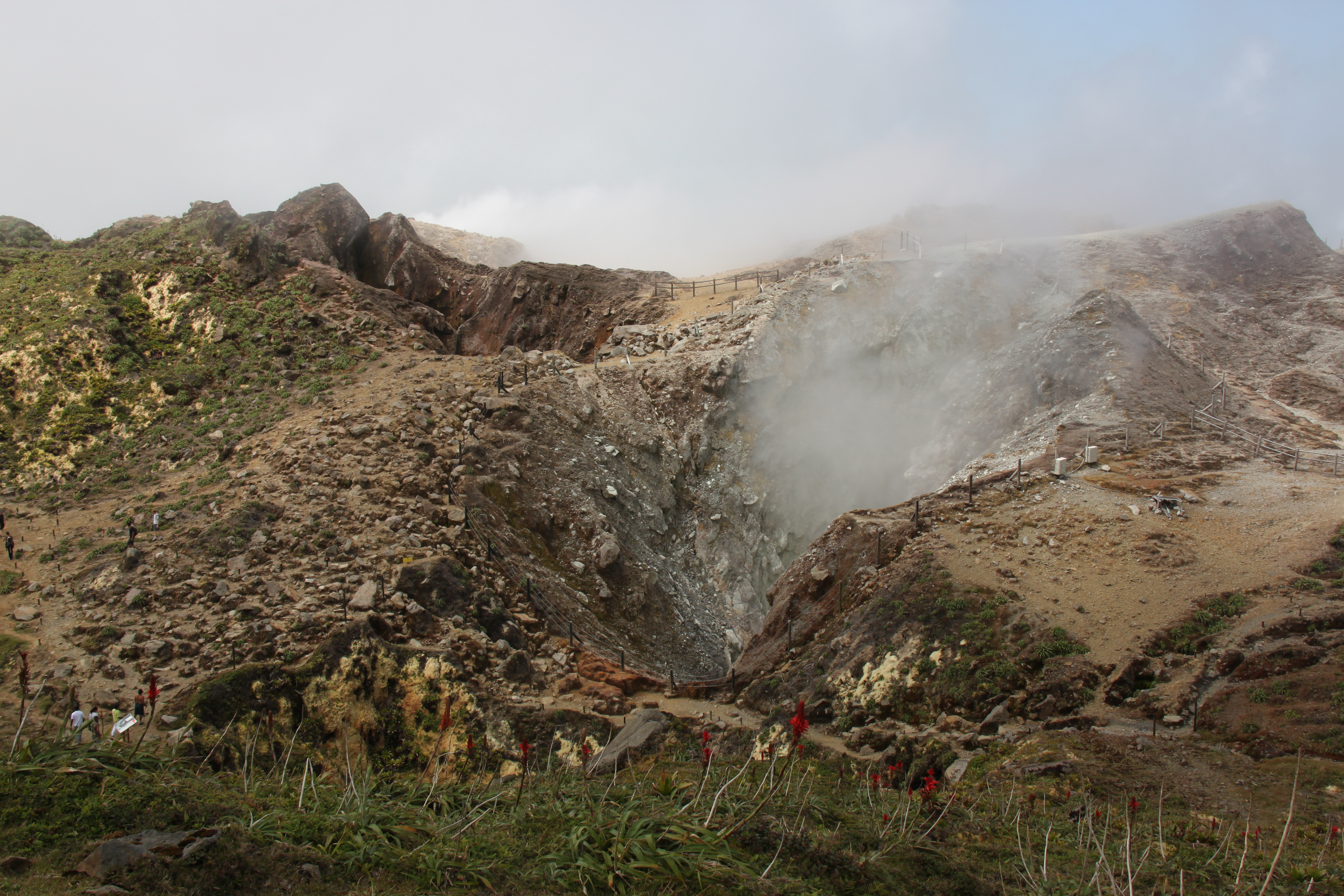 On top of volcano La Soufrière at island Basse-Terre, Guadeloupe; view from La Découverte in direction Gouffre Tarissan, South Crater